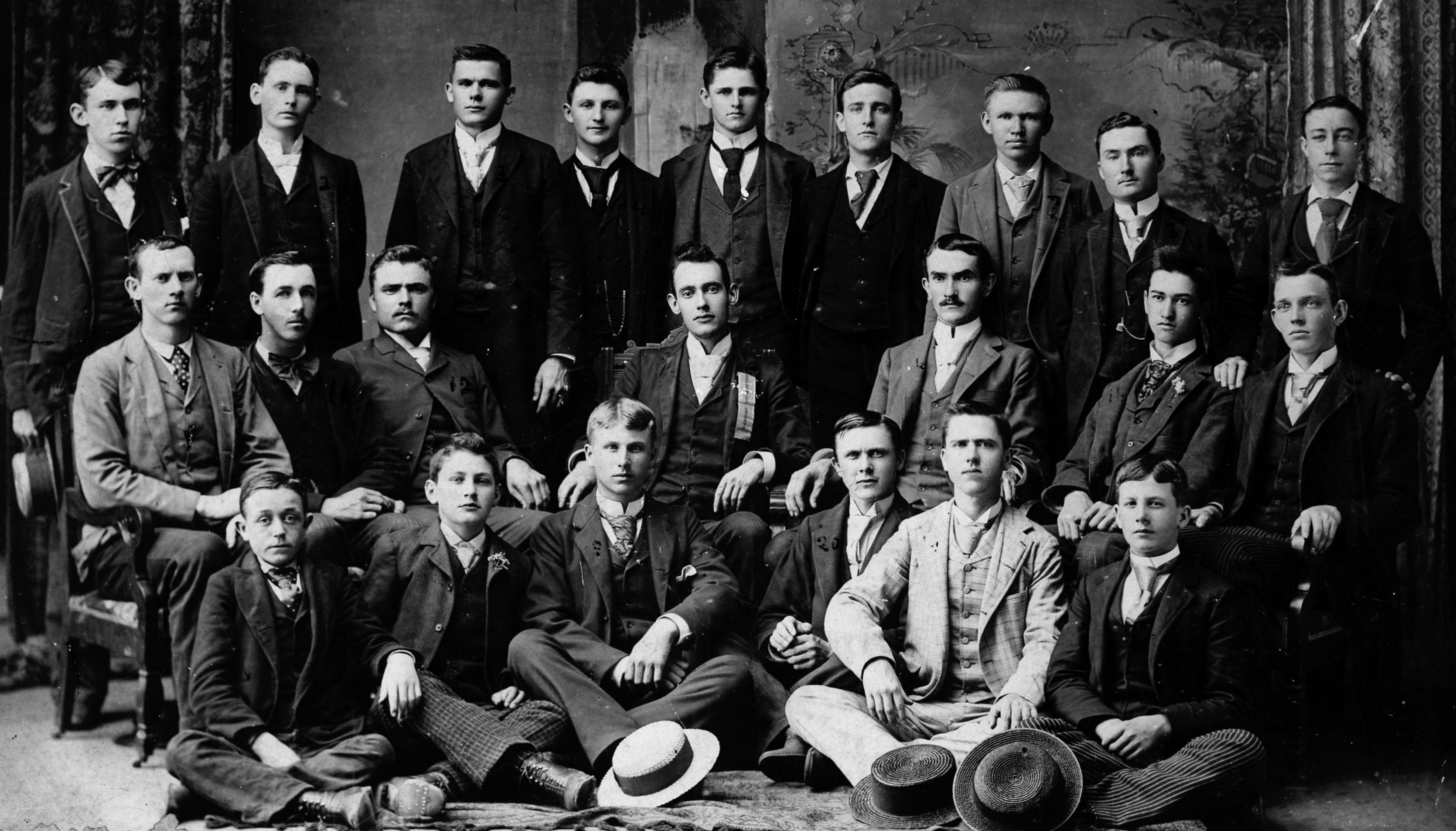 Dialectical Society (1893) of Florence State Normal College (now University of North Alabama). Released into Public Domain by University of NOrth Alabama Archives.